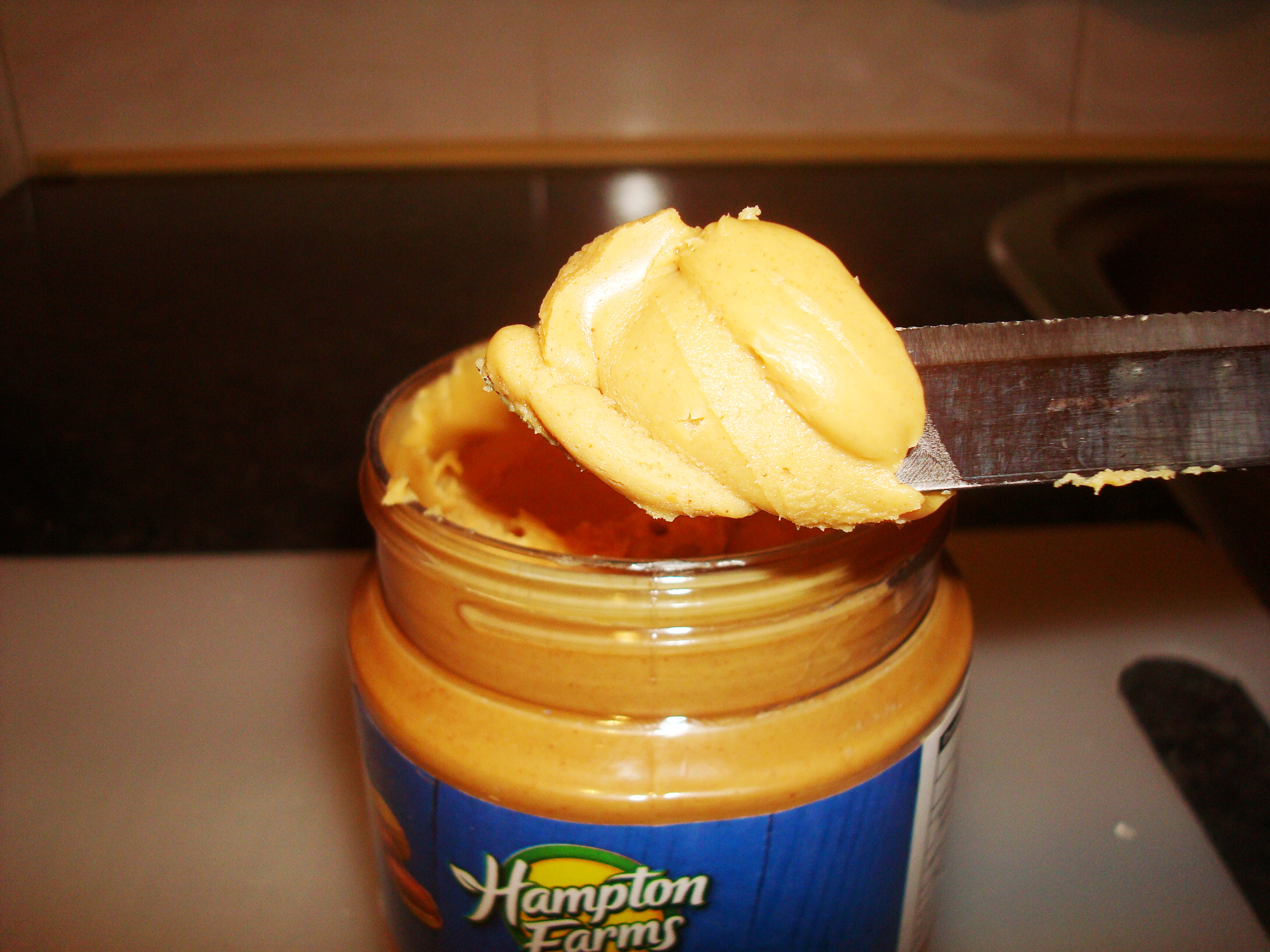 A newly opened jar of peanut butter.